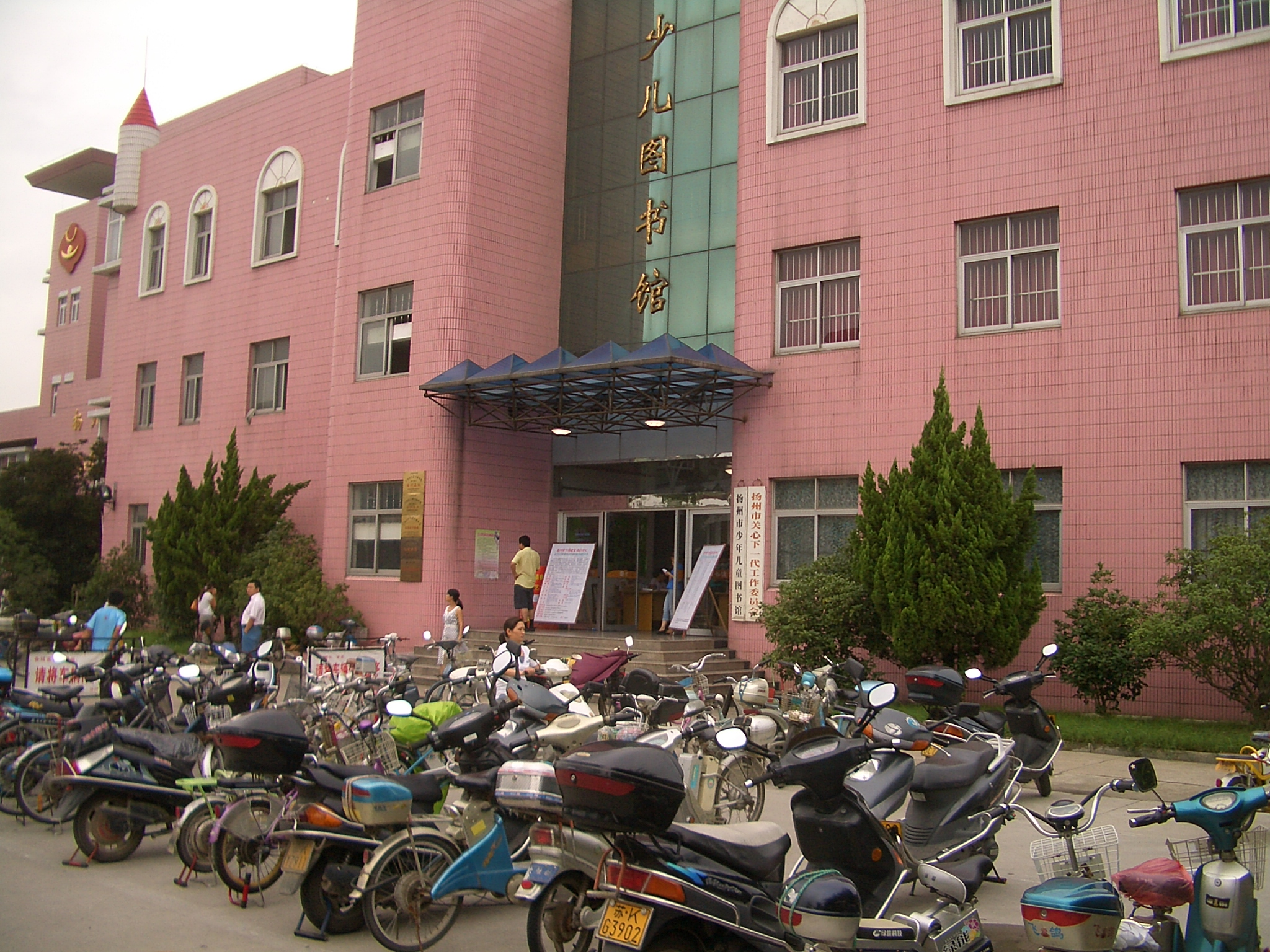 Children's library in Yangzhou (located within the same library "campus" as the main library), with the numerous two-wheel vehicles parked in front. Many of those are electric scooters, identifiable by their battery boxes.